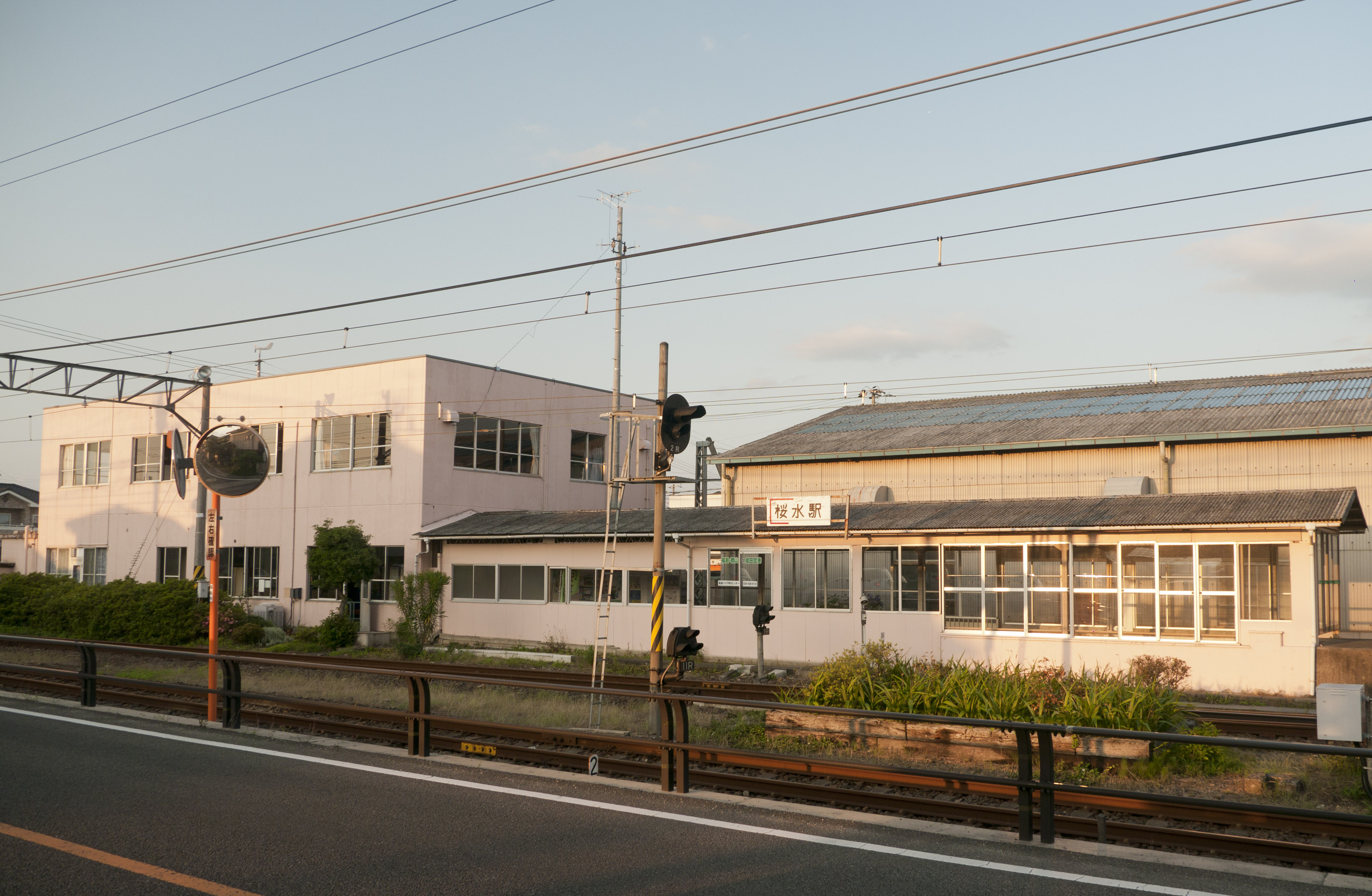 Fukushima Kotsu Iizaka Line Sakuramizu Station in Fukushima, Fukushima, Japan